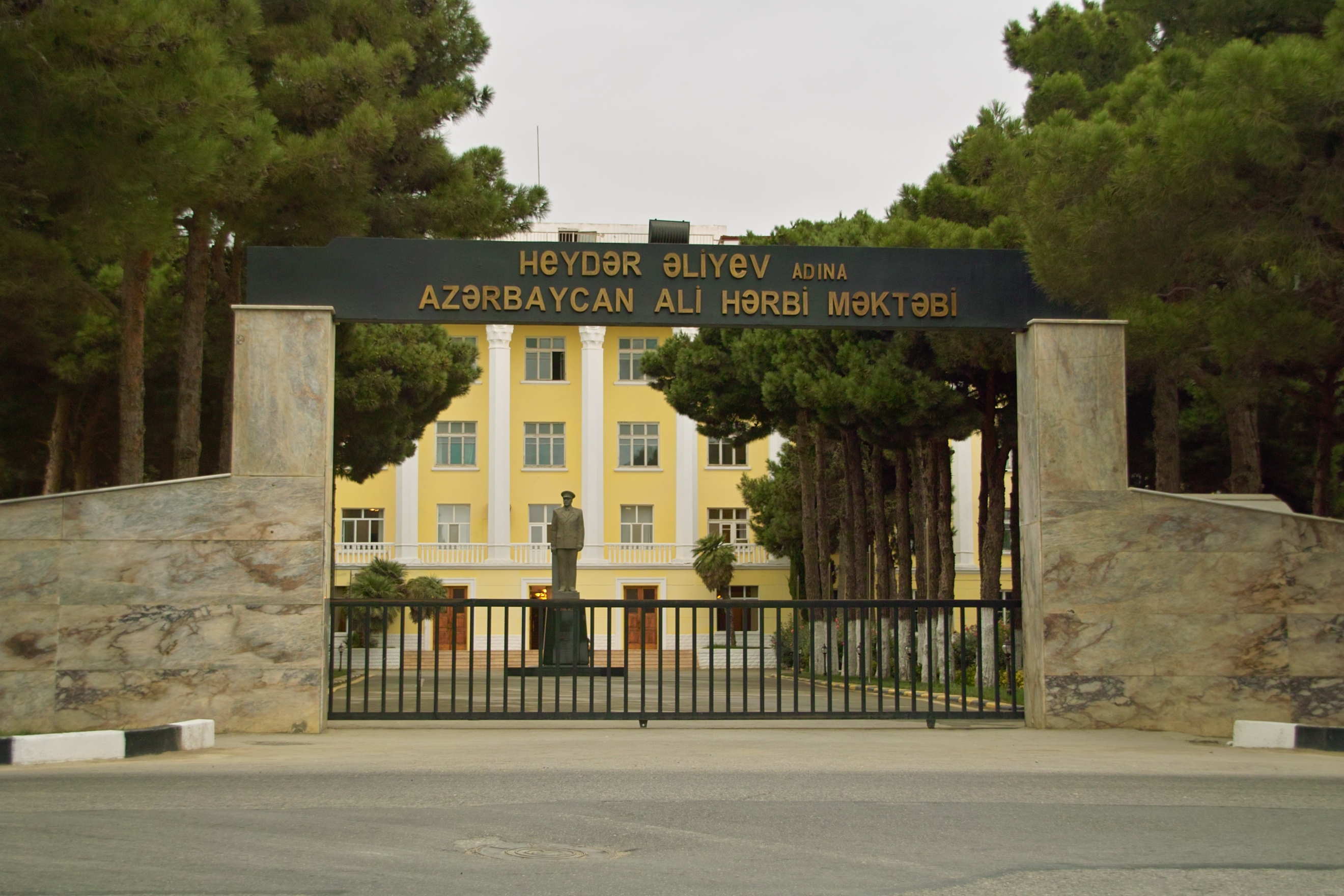 Azerbaijan Military High School